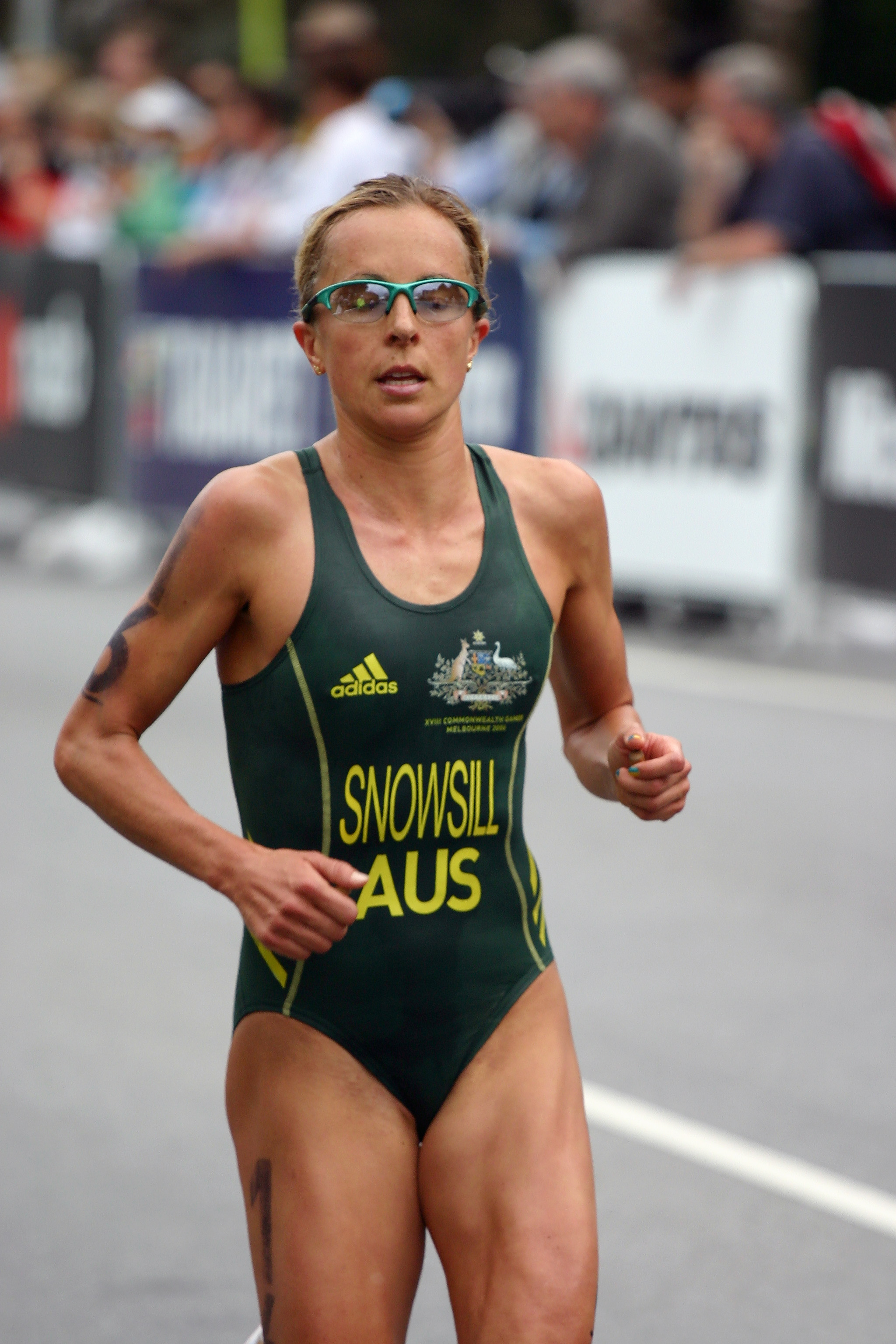 Commonwealth Games triathlon held on Beach Road, St Kilda.